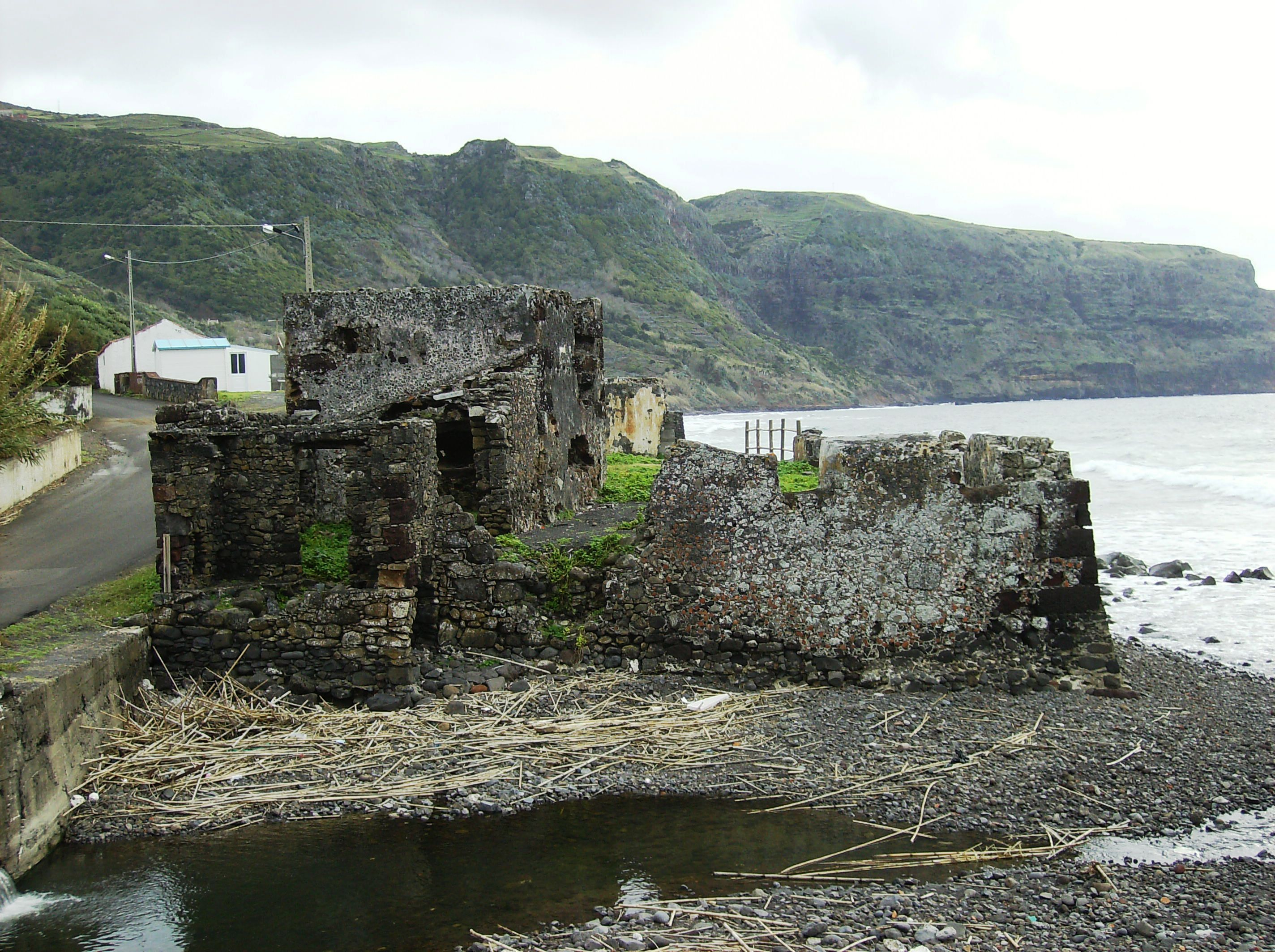 Remnants of the Fort of São João Baptista, Praia Formosa, parish of Almagreira, municipality of Vila do Porto, Azores (Portugal)